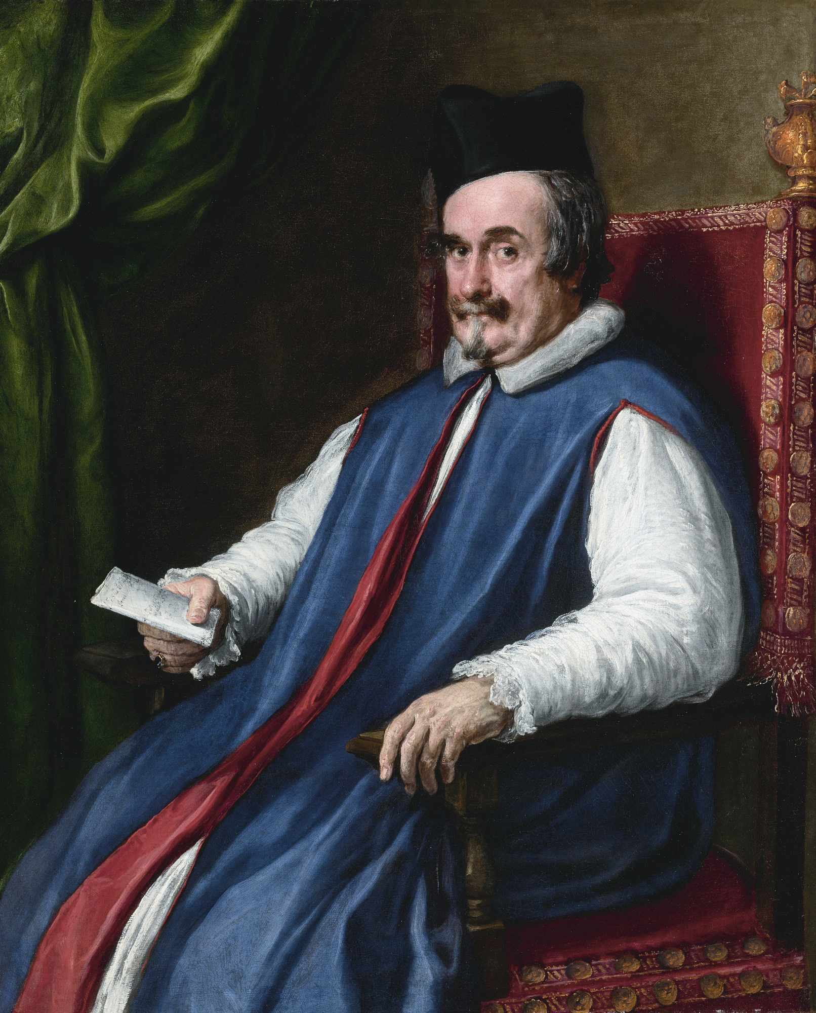 Monsignor Cristoforo Segni (d. 1661), Maggiordomo to Pope Innocent X